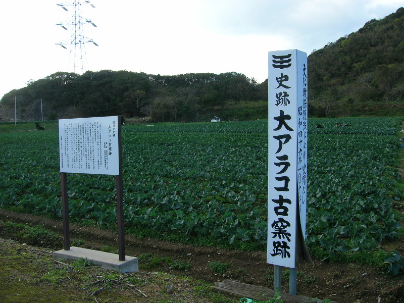 Ǒarako koyou-ato (Ruin of Ǒarako old kiln). Loc: Tahara city, Aichi Prefecture, Japan. 大アラコ古窯跡 撮影場所 愛知県田原市